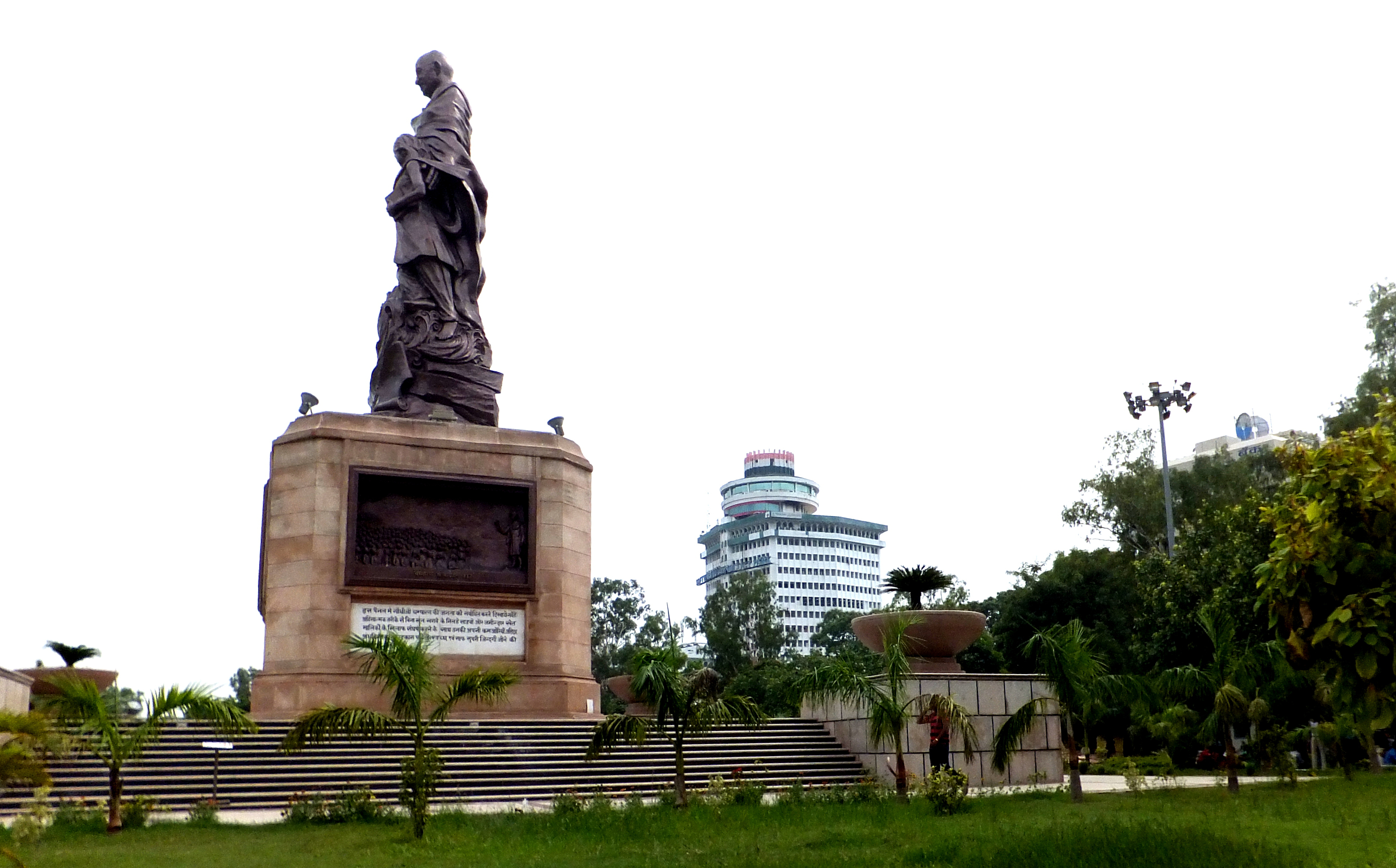 Statue of Mahatma Gandhi, Gandhi Maidan, Patna, India